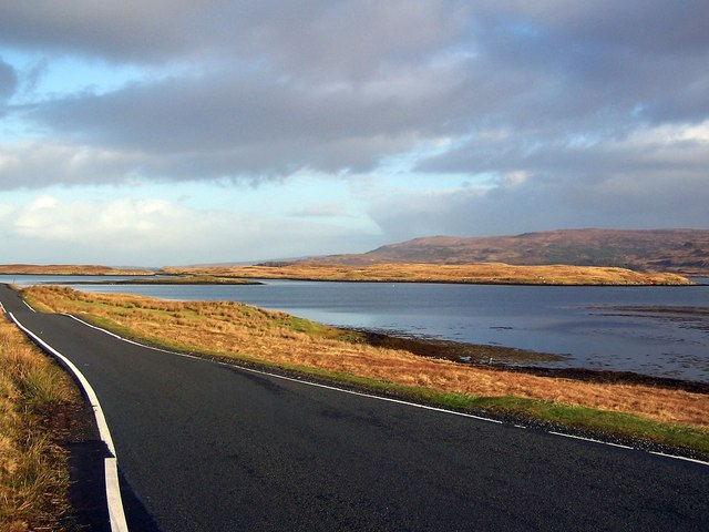 Loch Erghallan from Glendale road, Skye